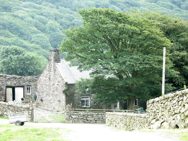 Close up of Maes-y-Garnedd. A typical, vernacular style, 17th century farmhouse built at the head of Cwm Nantcol.